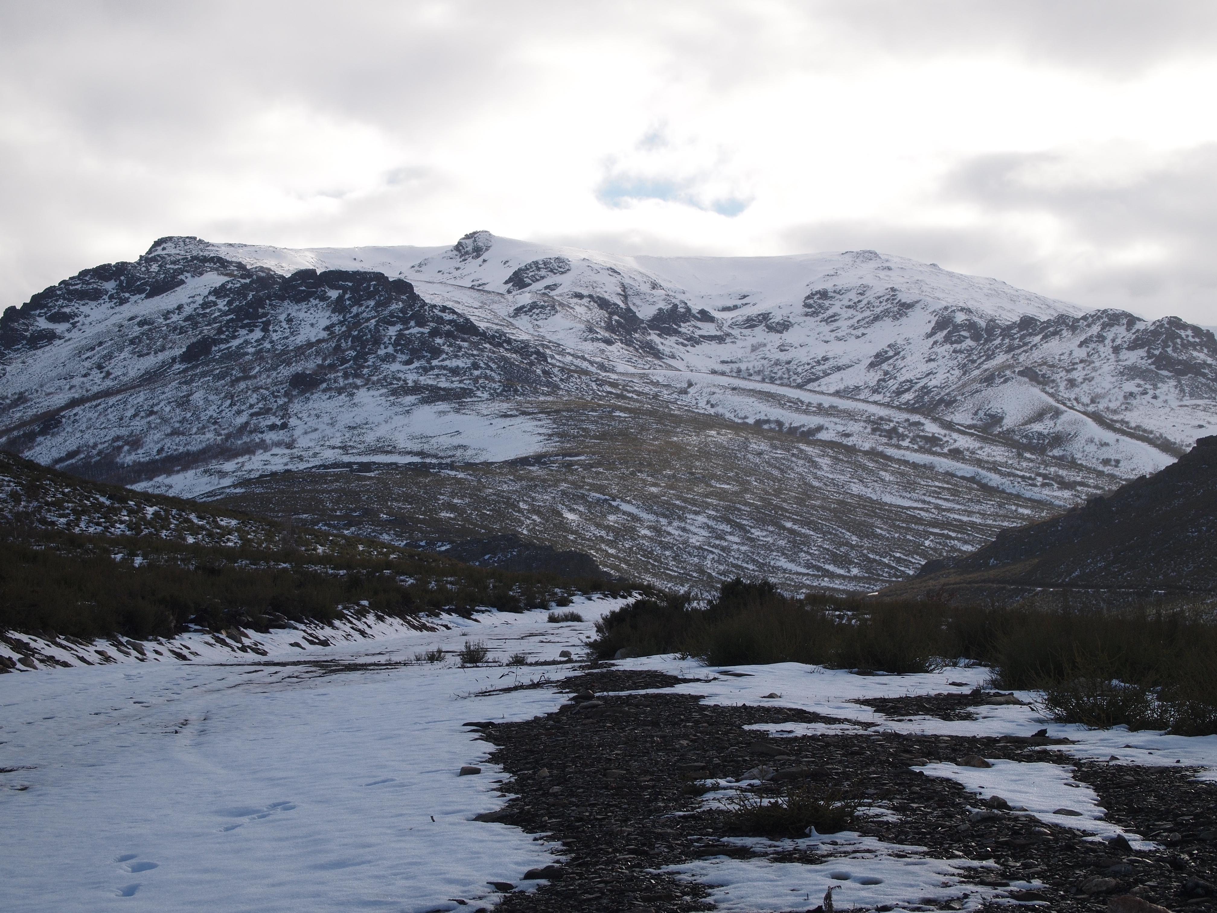 The mountain Vizcodillo, as seen from its northern face, close to the village of Truchillas, in the spanish province of Leon, county of La Cabrera, municipality of Truchas